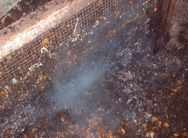 Turning a hot home compost